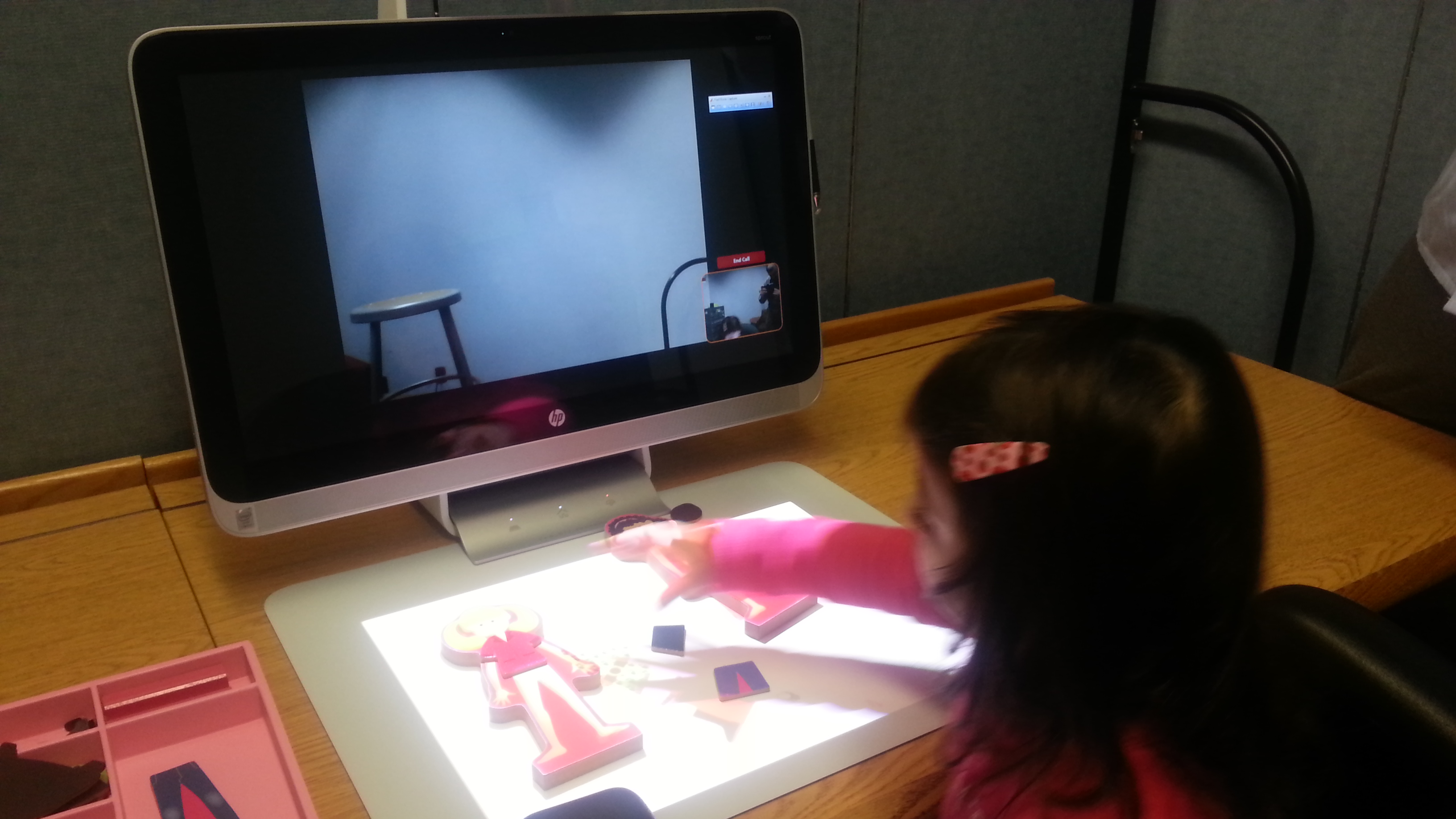 ShareTable application for HP Sprout